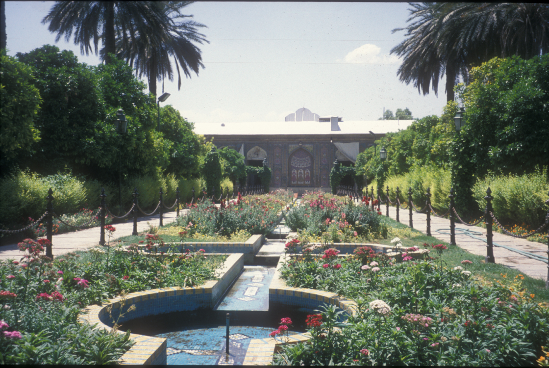 Eram Garden with fountain, and the Ghavam—Qavam Garden (house), Shiraz, Iran. Shiraz was once world famous for its many gardens and aromatic flowers. The Ghavam House Garden is one of few remaining gardens still to be found today.